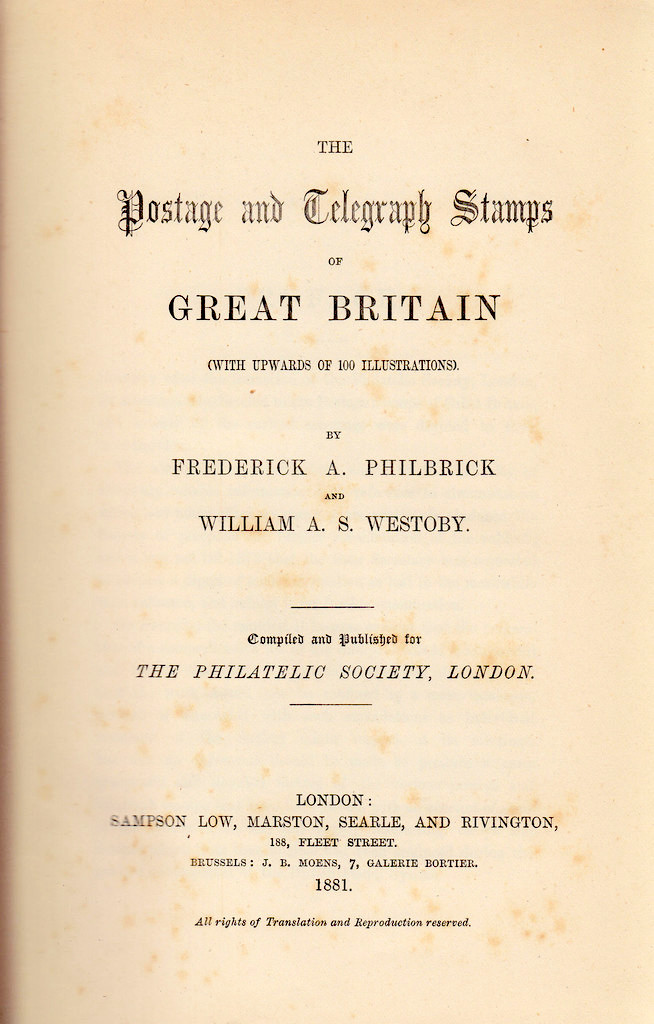 The Postage and Telegraph Stamps of Great Britain, 1881. By Frederick Philbrick & W.A.S. Westoby. Book cover (title page)